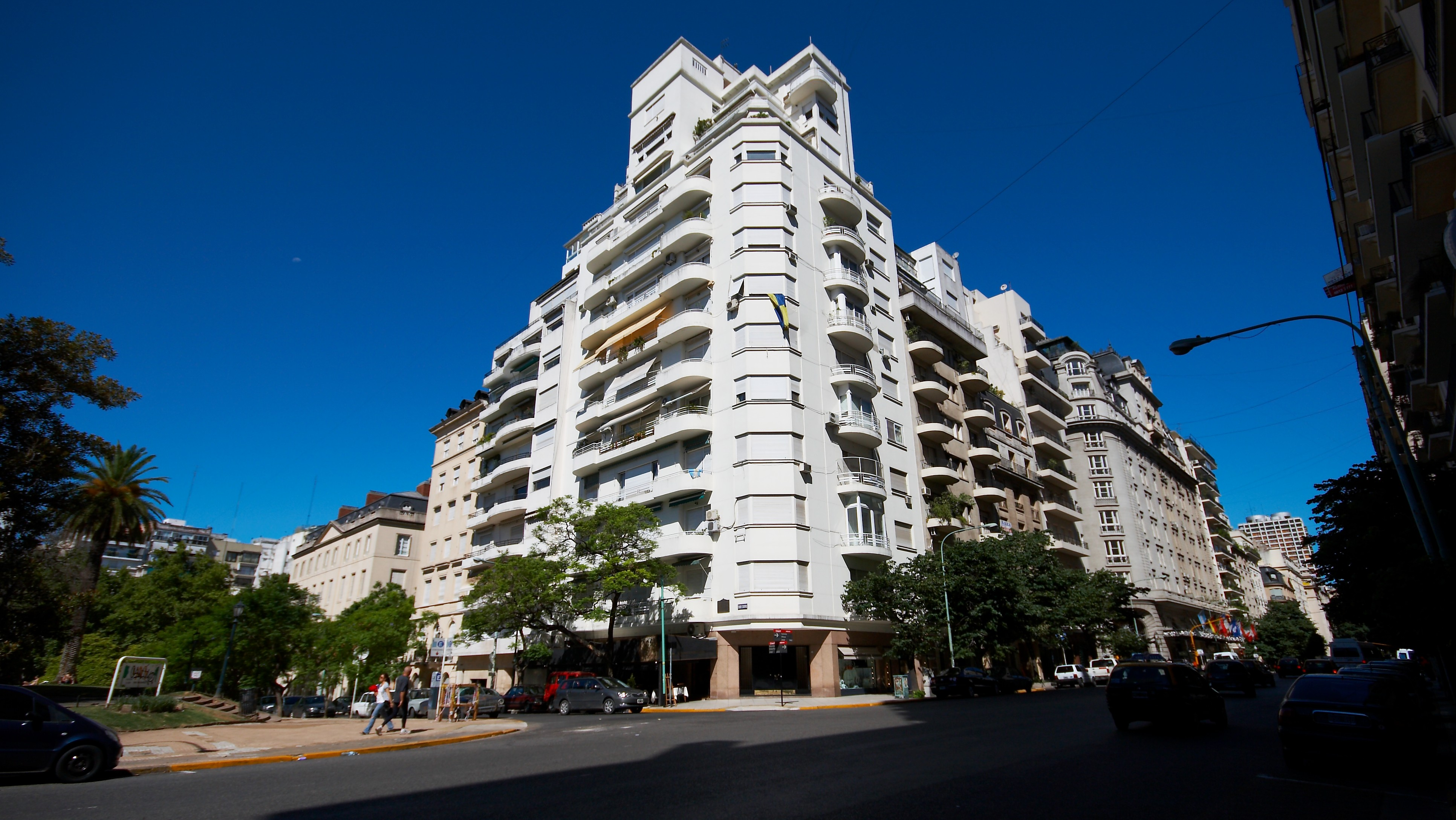 Alvear avenue and Eduardo Schiaffino passage, Buenos Aires, Argentina.